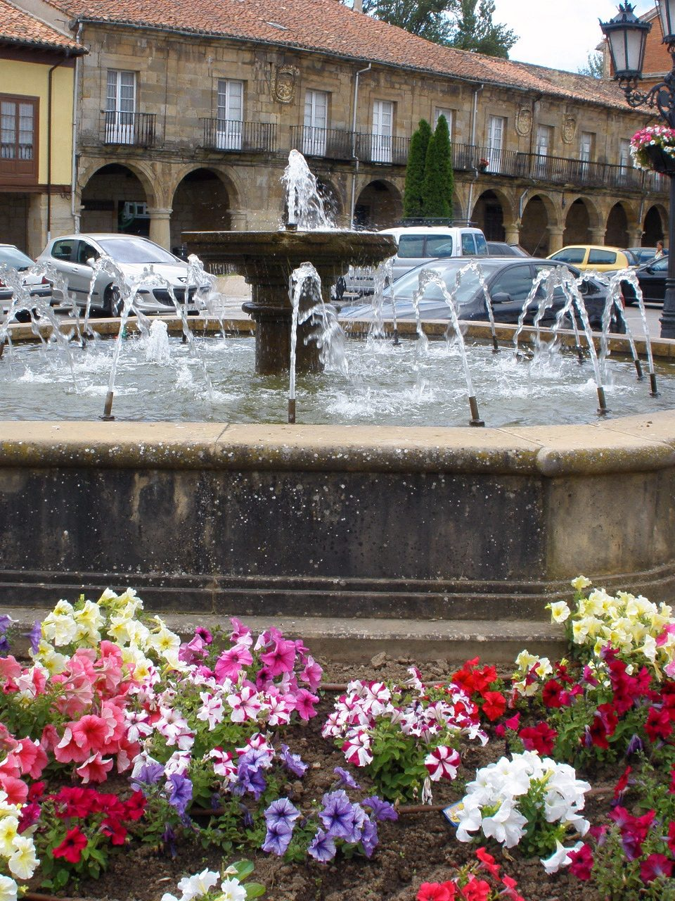 Plaza de España en Aguilar de Campoo (Palencia, Castilla y León).